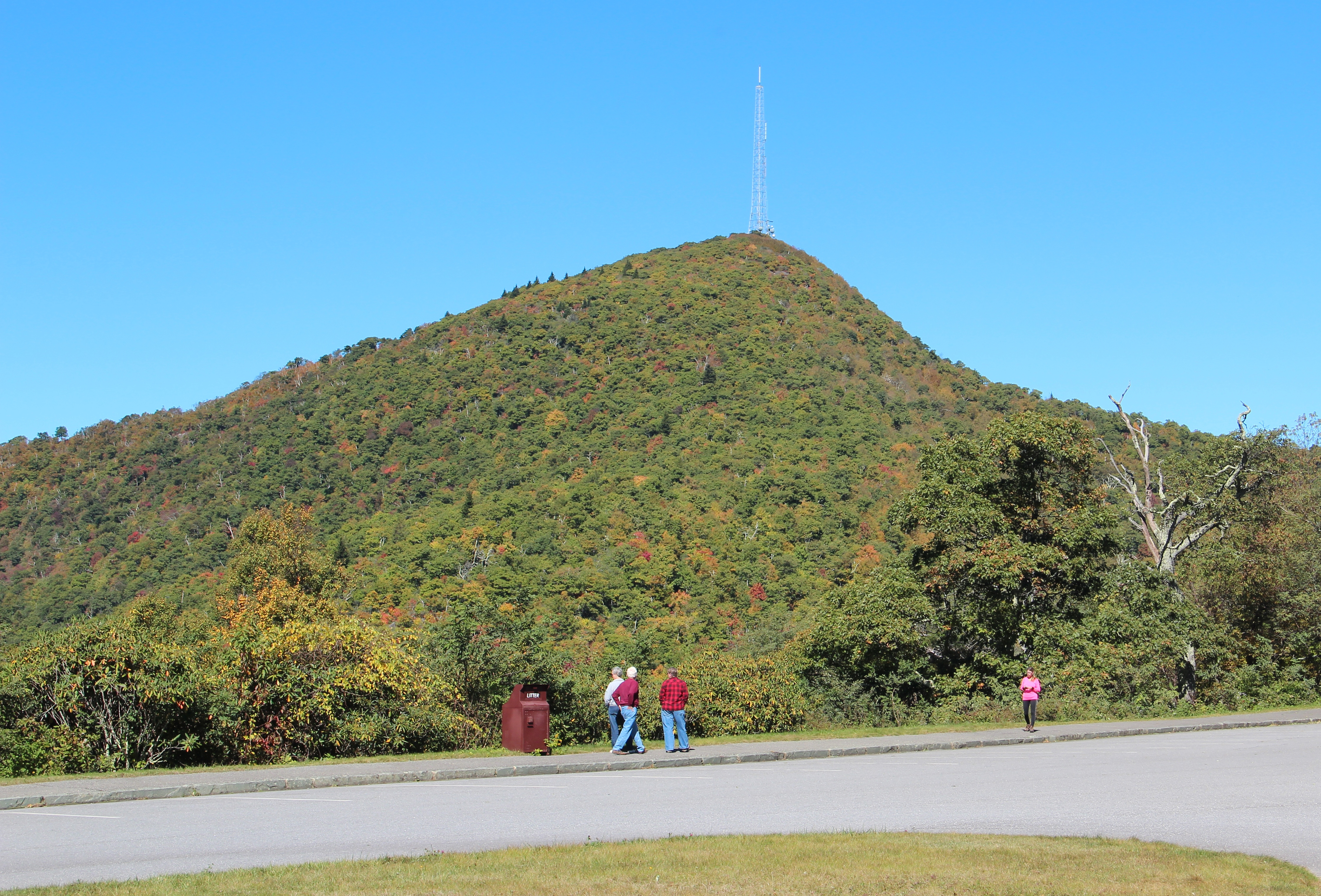 Mount Pisgah in October, 2016